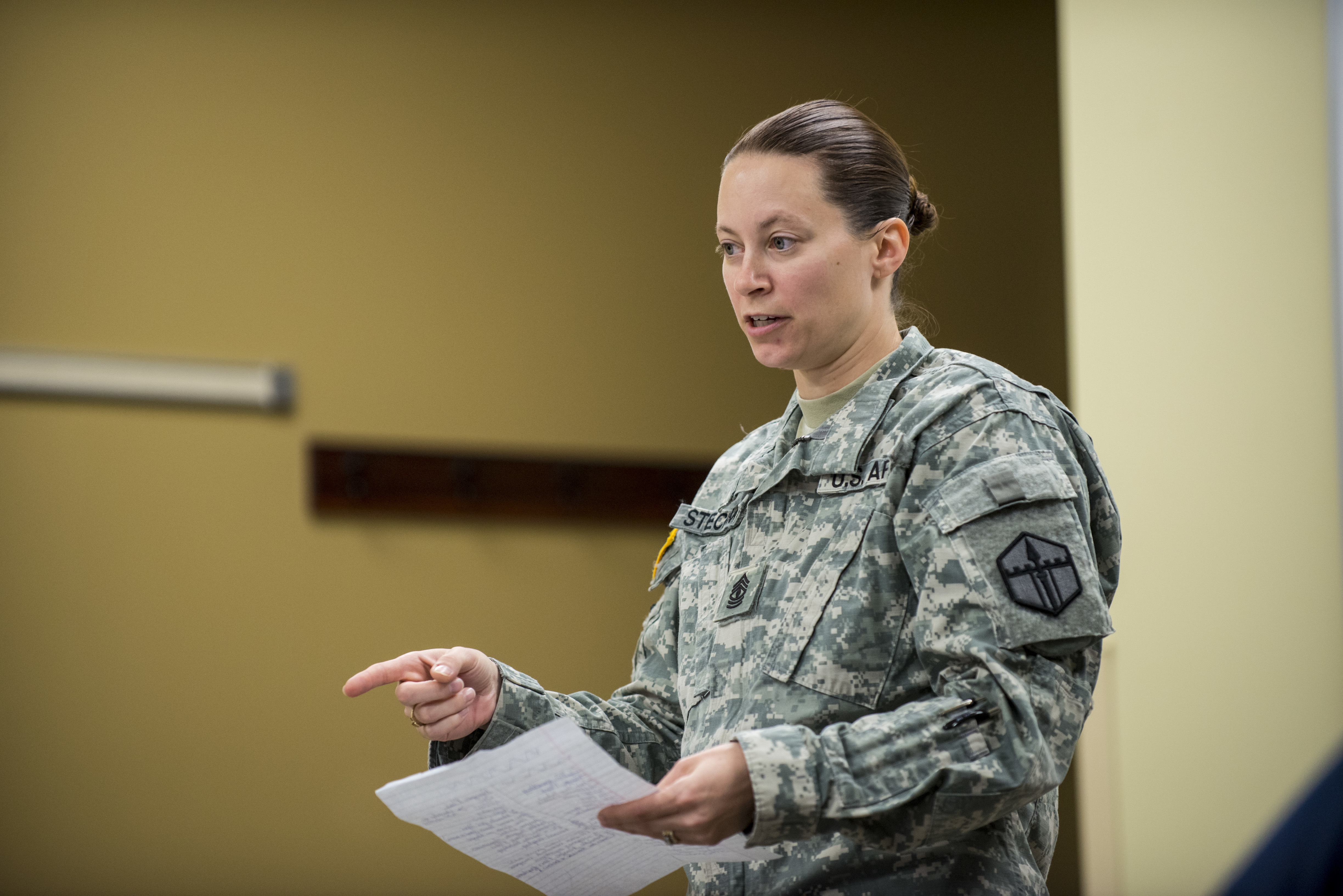 First Sgt. Raquel Steckman is the first woman in the Army appointed to a combat engineer company as a first sergeant, now with the 374th Engineer Company (Sapper), headquartered in Concord, Calif. (U.S. Army photo by Sgt. 1st Class Michel Sauret)